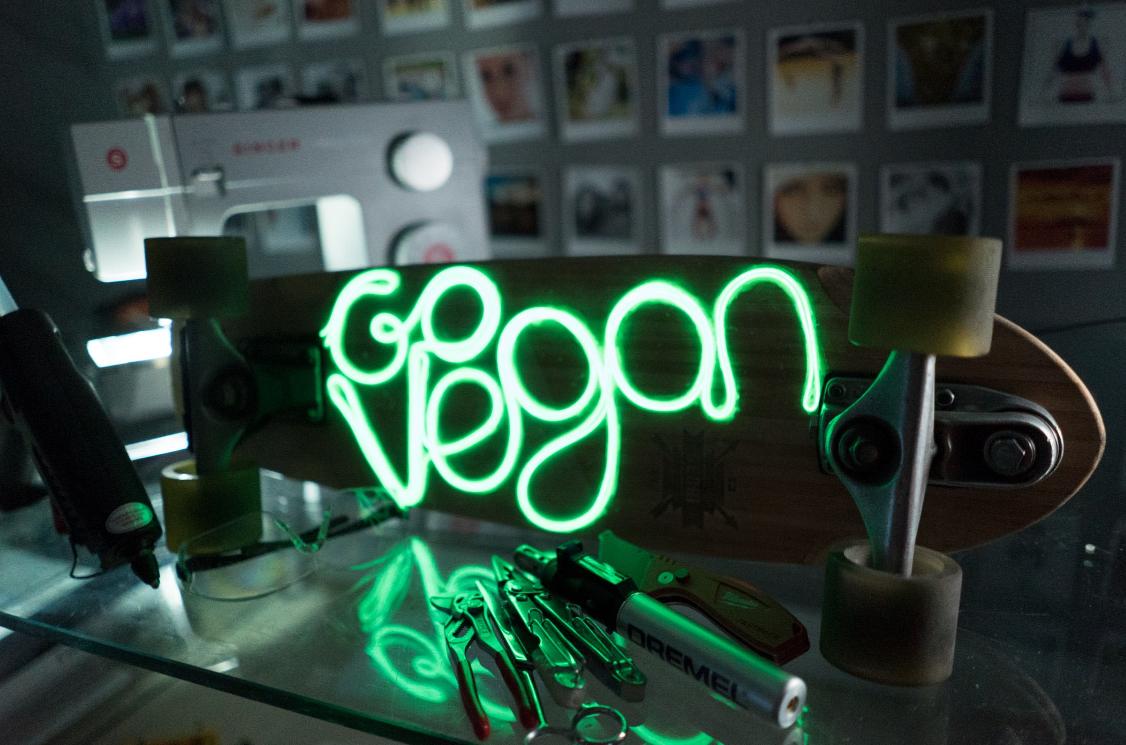 use as you wish